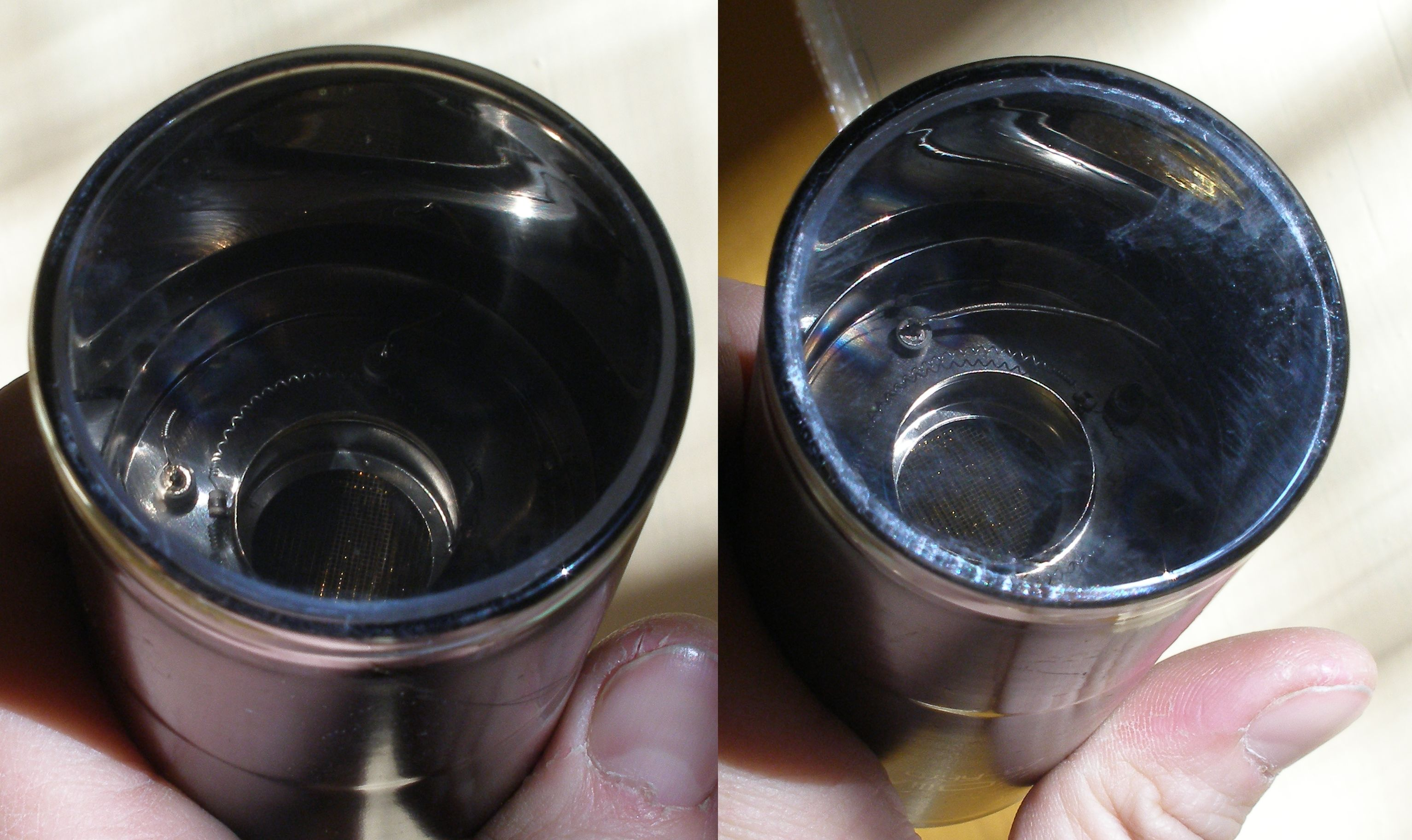 Photomultipliers FEU-93 and FEU-97 (ФЭУ-93, ФЭУ-97). Manufactured in exUSSR.